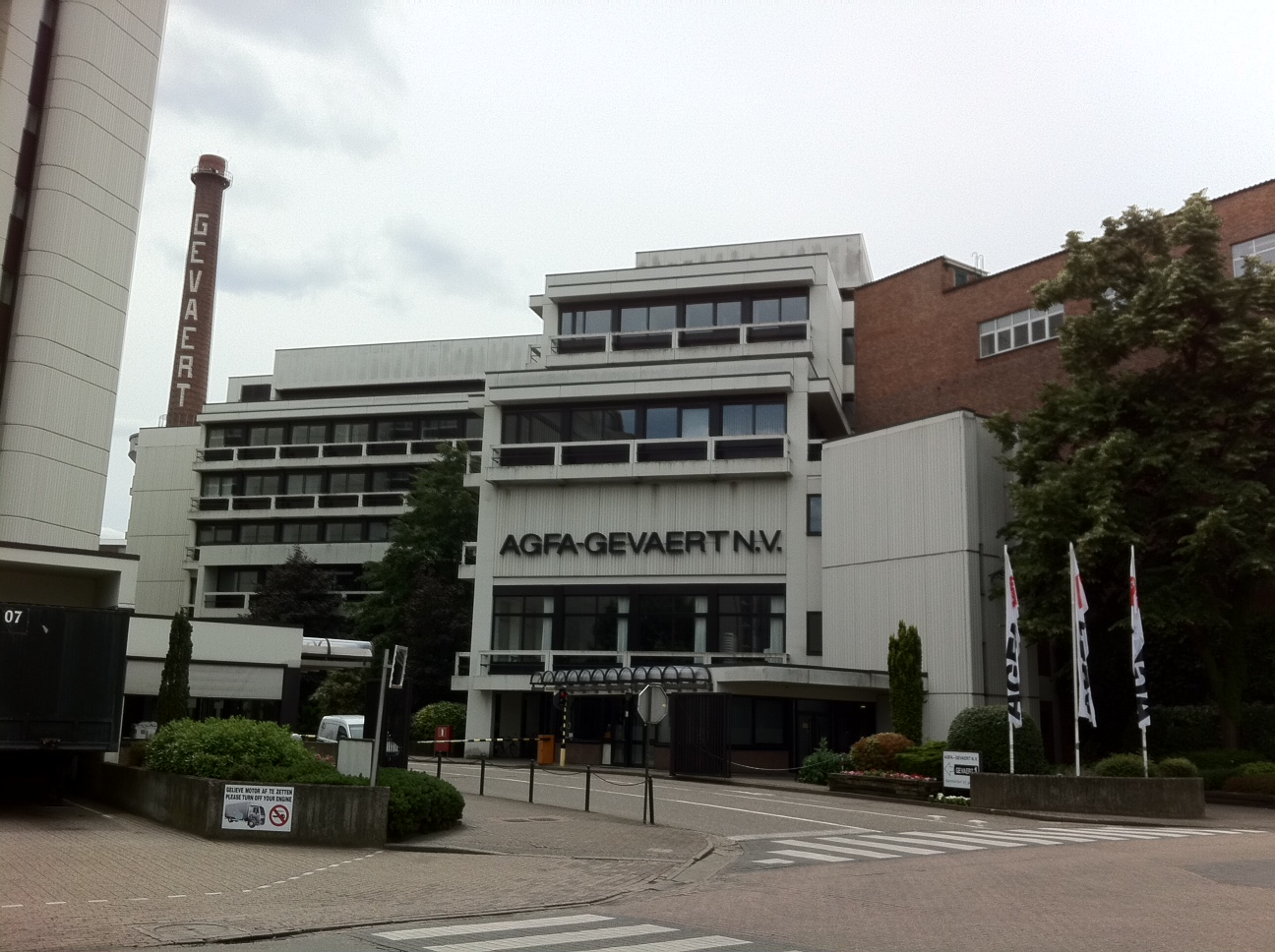 Agfa-Gevaert in Mortsel, Belgium